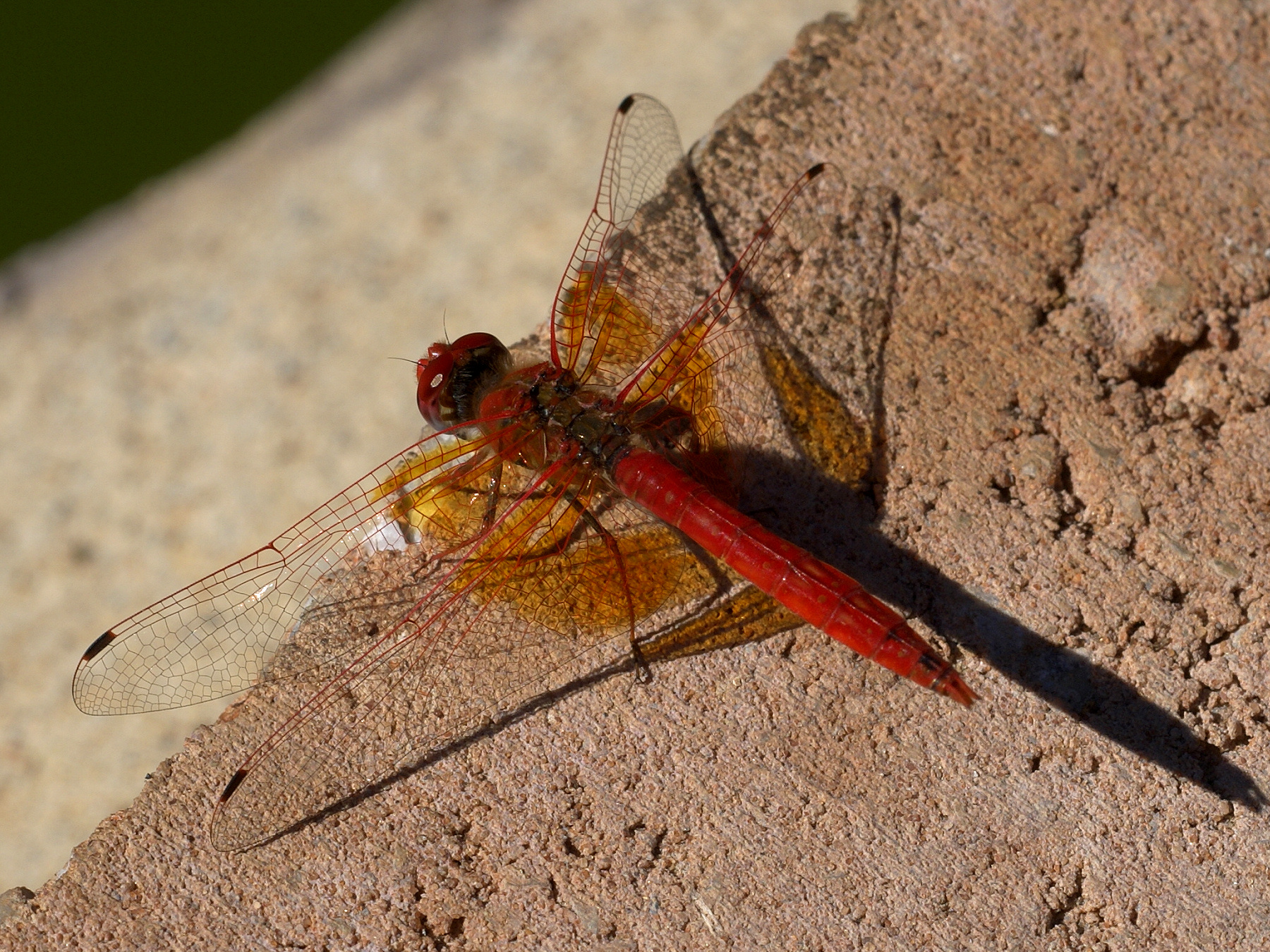 Kirby's Dropwing in Tsumeb, Namibia.